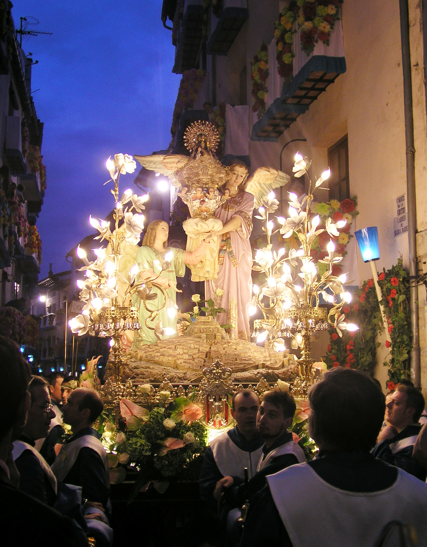 Virgin of Vallivana. Sexenni 2012. Morella